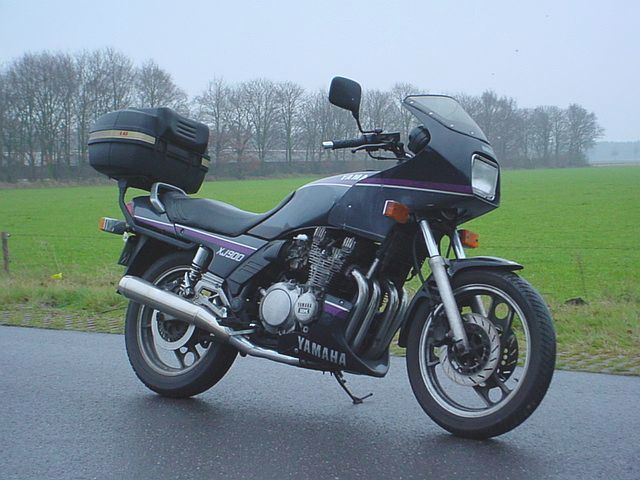 Yamaha XJ900F 4BB, 1983, Yamaha XJ900